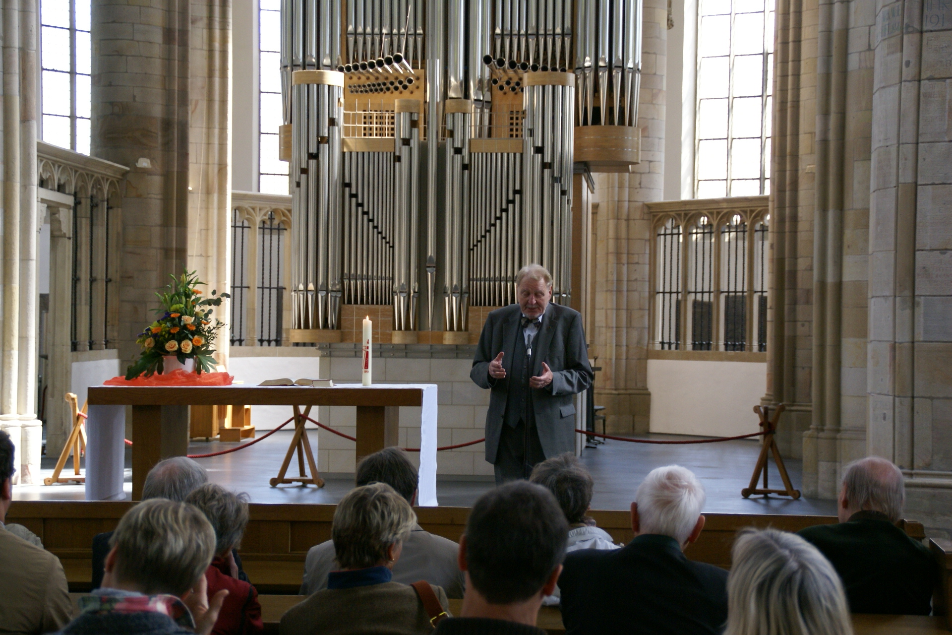 Prof. Wolfgang Deurer, restoration leader of the cathedral, holds a lecture at Willibrordi Cathedral in Wesel, Germany